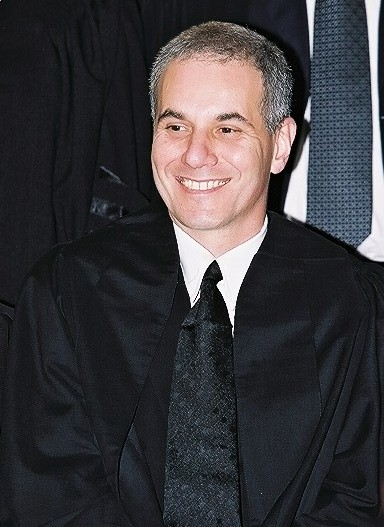 BOAZ OKON